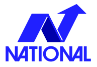 Logo of the New Zealand National Party from 1970s and 1980s